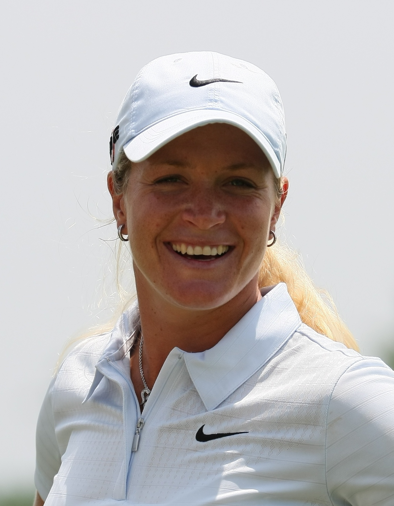 HAVRE DE GRACE, MD - JUNE 08: Suzann Pettersen (NOR) during Pro-Am before 2009 LPGA Championship held at Bulle Rock Golf Course, on June 9, 2009 in Havre de Grace, Maryland. (Photo by Keith Allison)